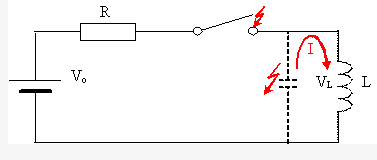 Same as Induc2a.png with some sparcs. 2006